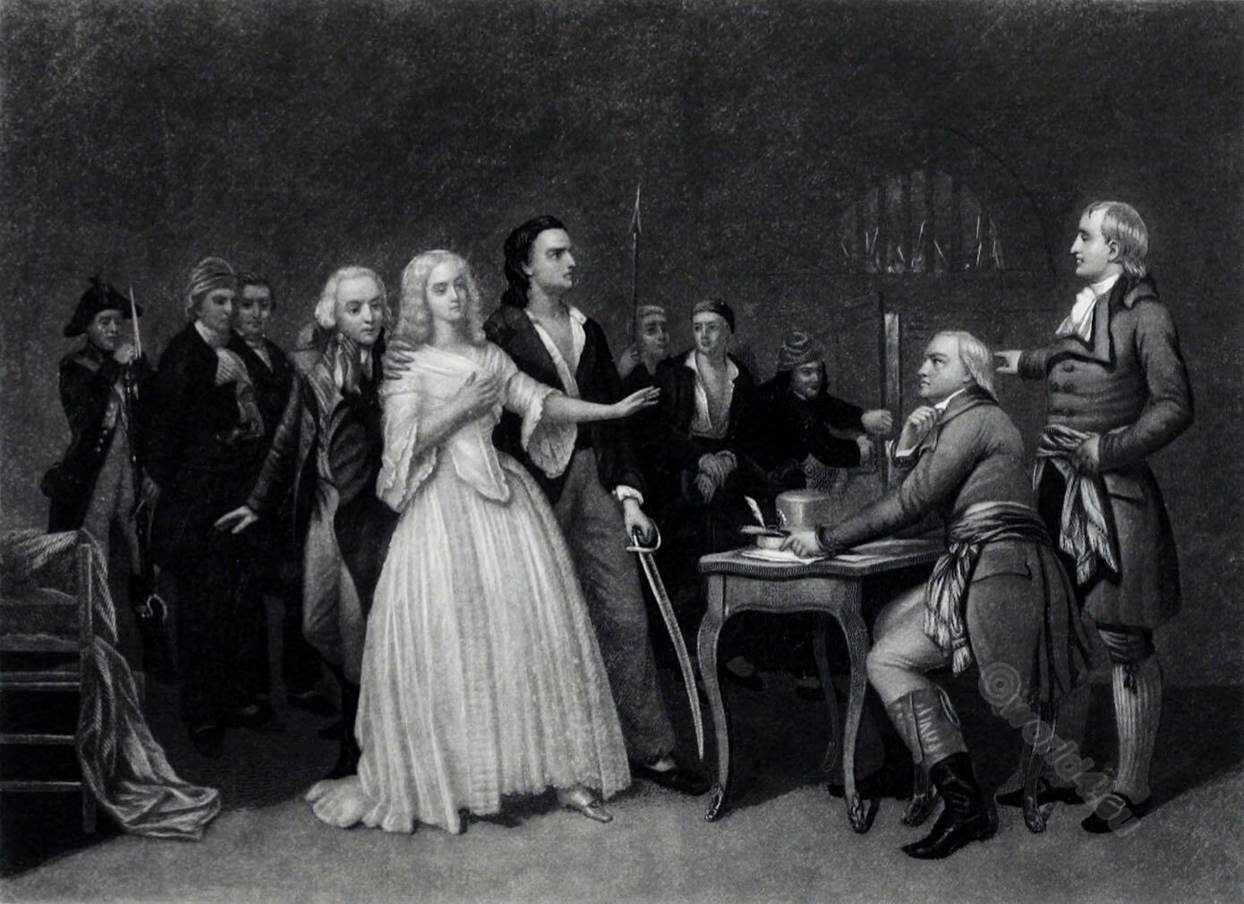 Engraving by Samuel Sartain after Louise Desnos